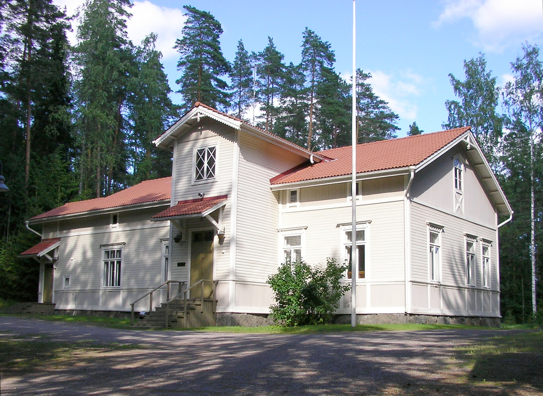 Skinnarilan hovi, Lappeenranta, Finland.